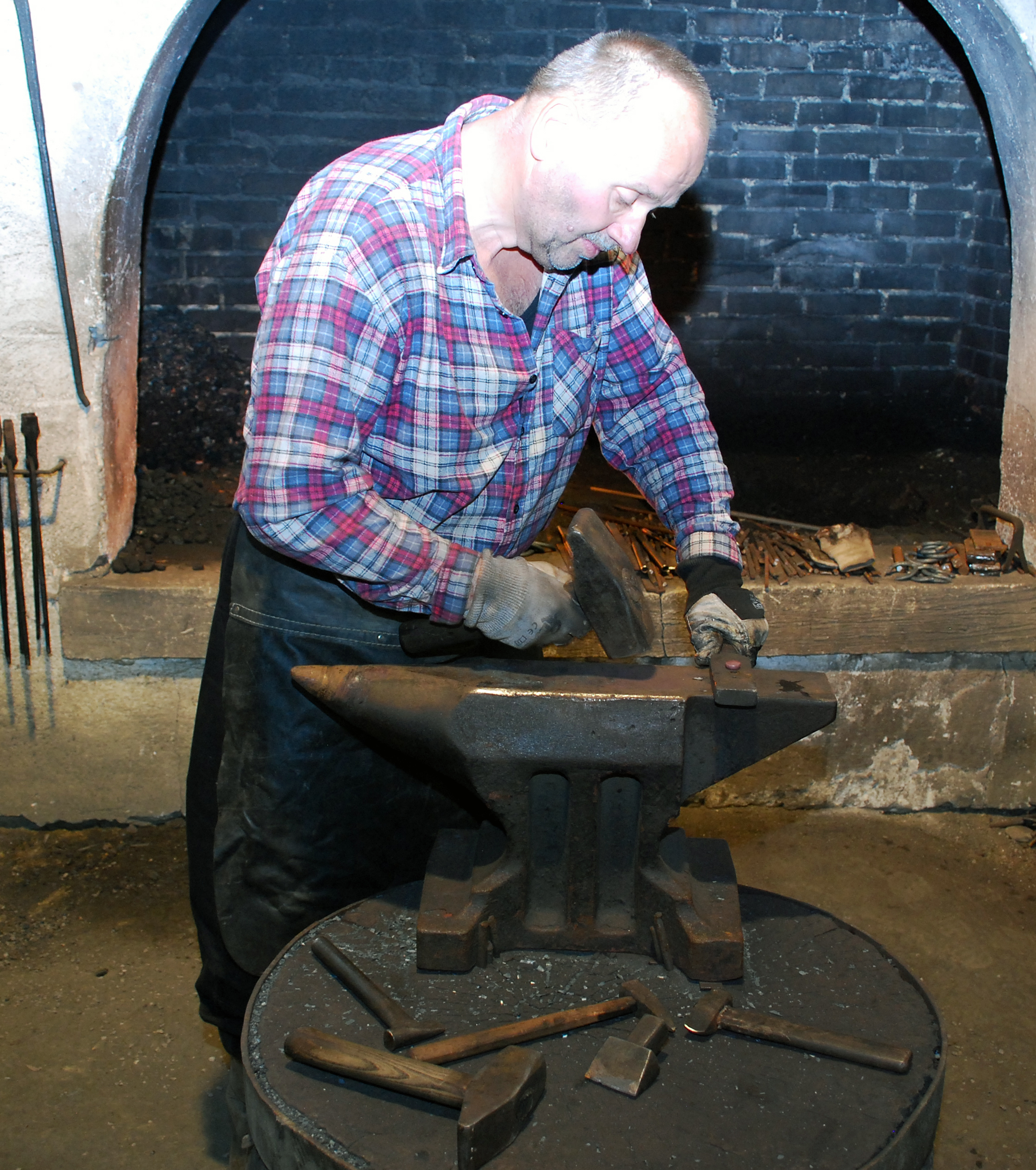 Forge in Wallachian Open Air Museum - hammers powered by water - forging of nail